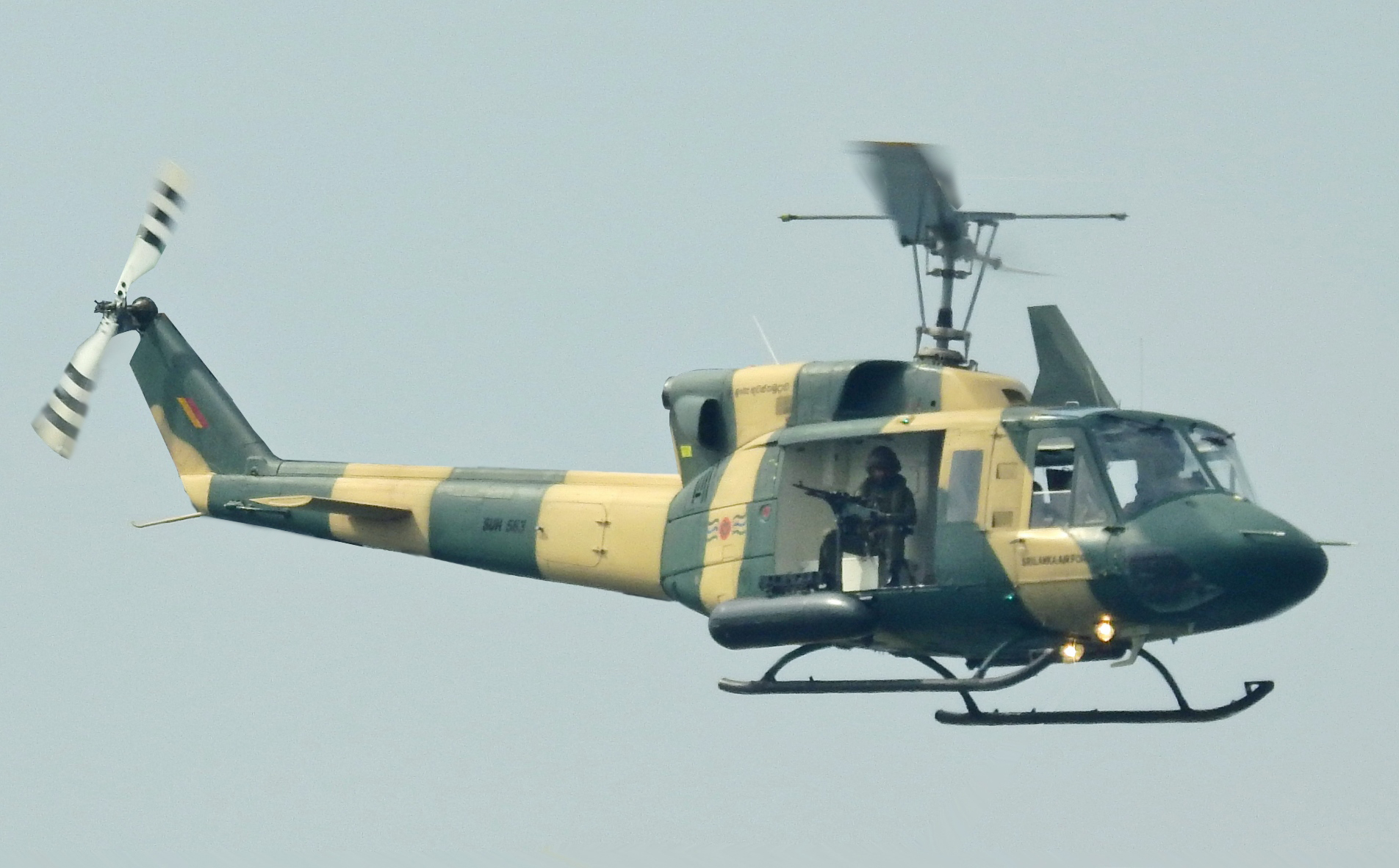 Sri Lanka Bell 212 over Independence - 4 Feb 2019